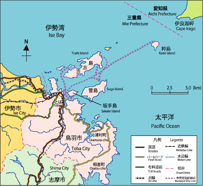 This is a map for the line of Toba Municipal Ship or Toba Shiei Teikisen.